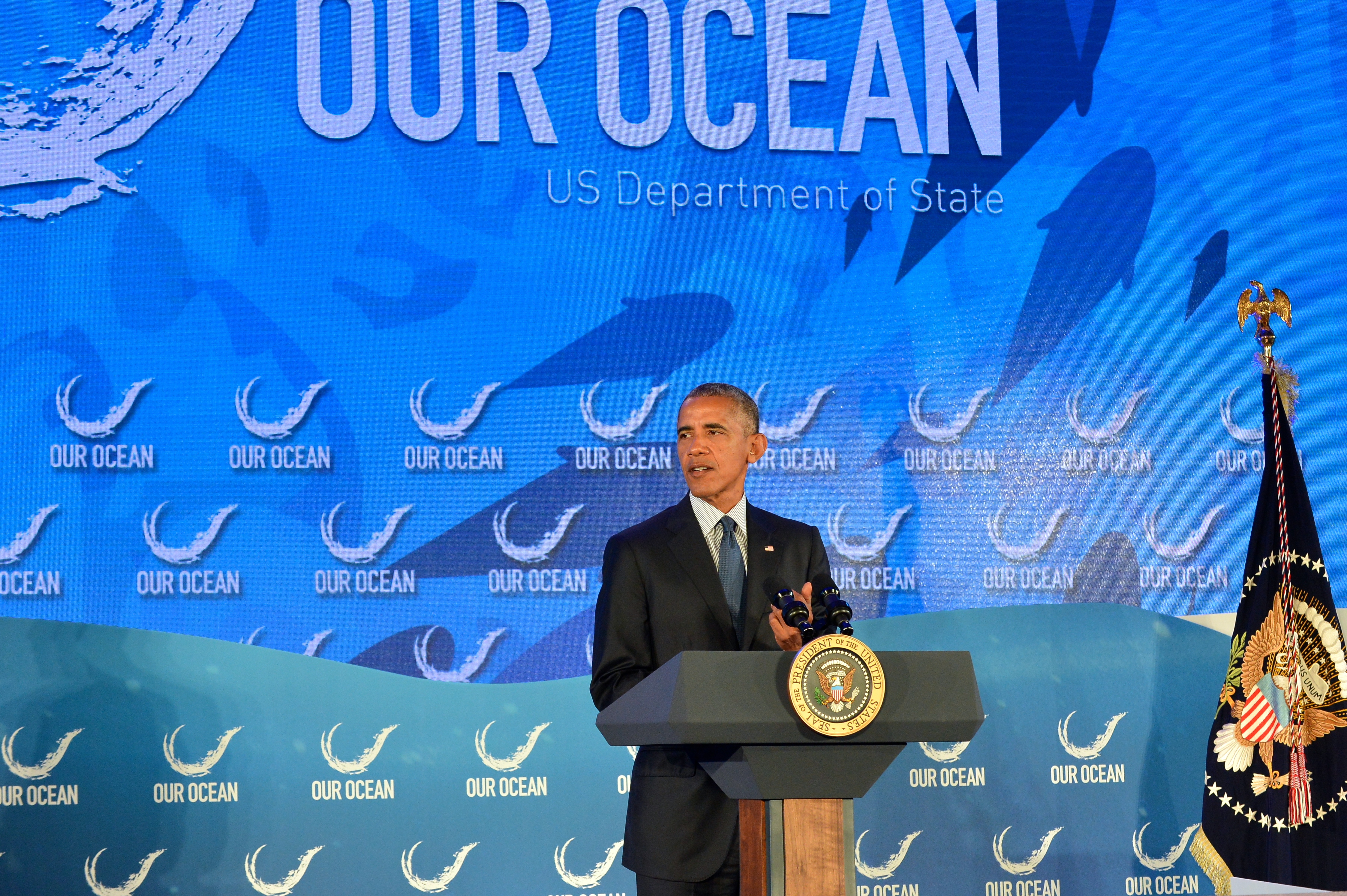 President of the United States Barack Obama delivers remarks at the 2016 Our Ocean Conference at the U.S. Department of State in Washington, D.C. on September 15, 2016. [State Department Photo/ Public Domain]